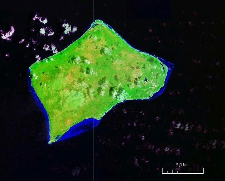 Satellite image of Little Inagua Island, southern Bahamas